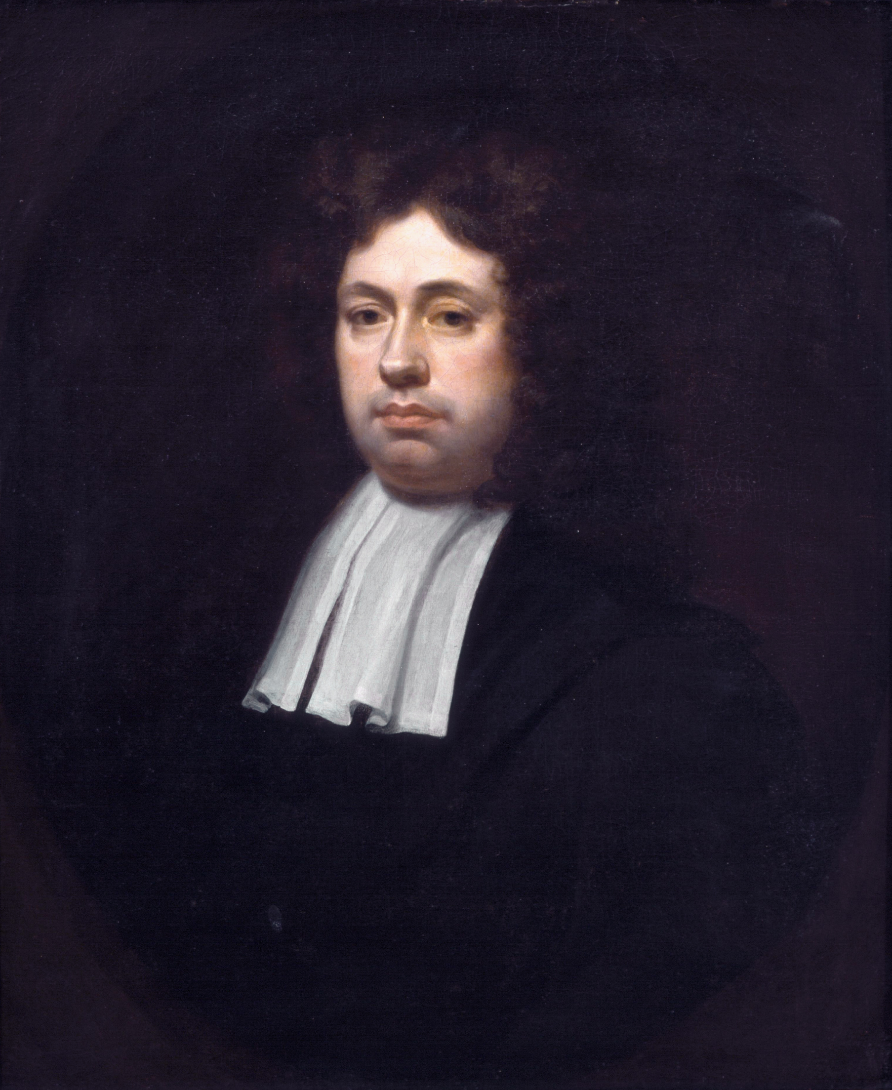 David van Hoogstraten (1658-1724) oil on canvas 78.5 x 64.5 cm 1743